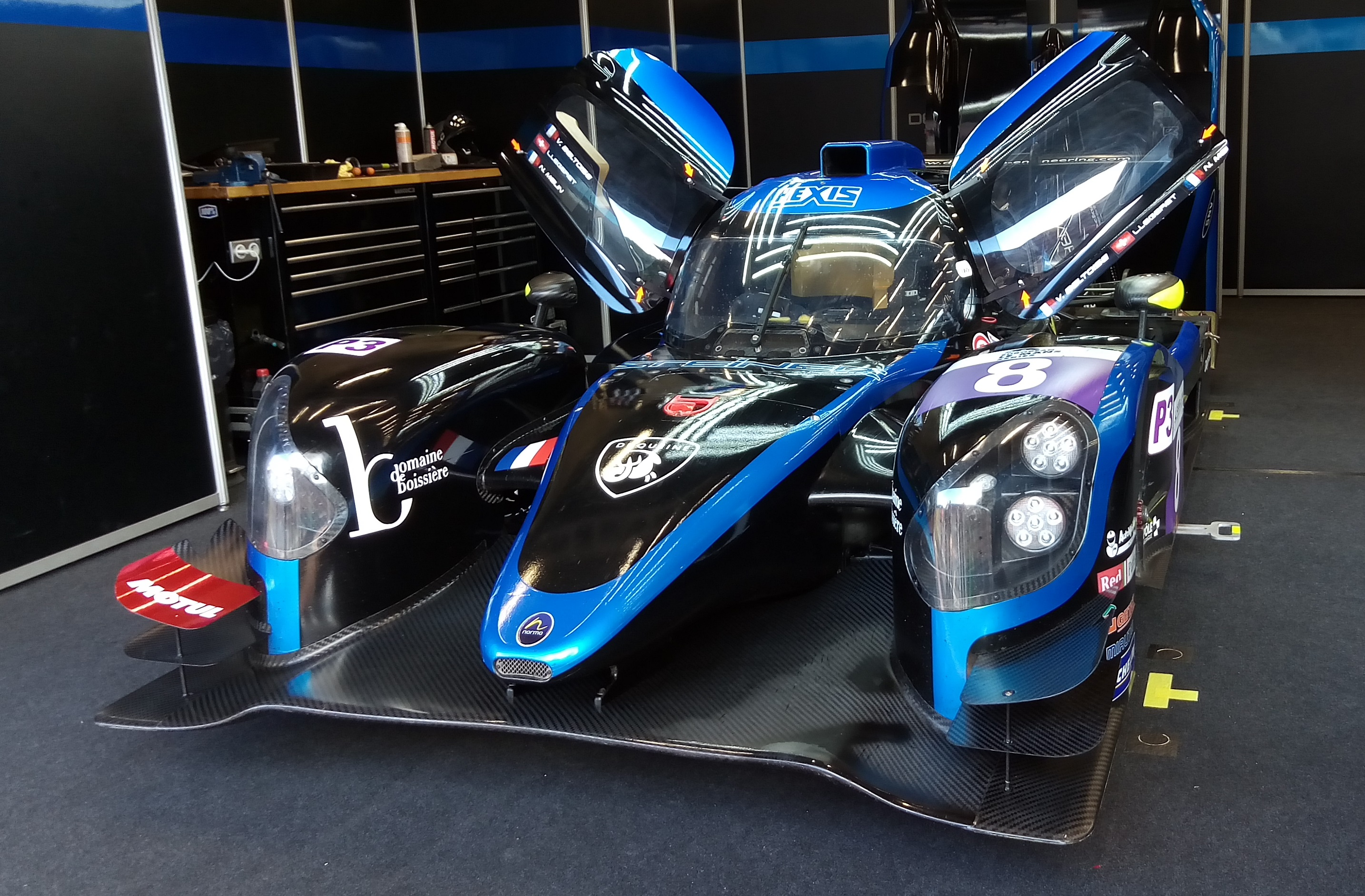 The Duqueine Engineering Norma M30 as raced by Antonin Borga, David Droux and Nicolas Schatz in the 2017 4 Hours of Spa.